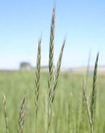 Elymus hoffmannii 'Newhy'